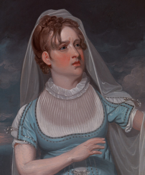 Mary or Maria Gibbs by Samuel De Wilde. Maybe 1803